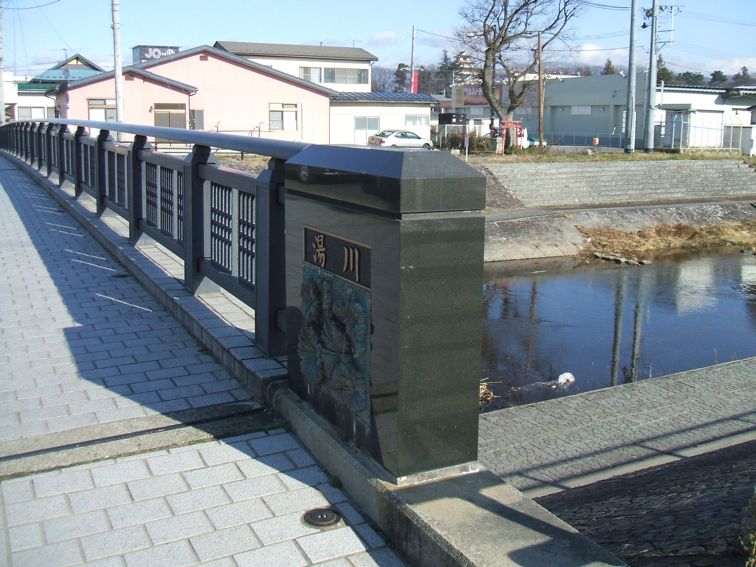 Yugawa river at Omotemachi-town, Aizuwakamatsu, Fukushima.